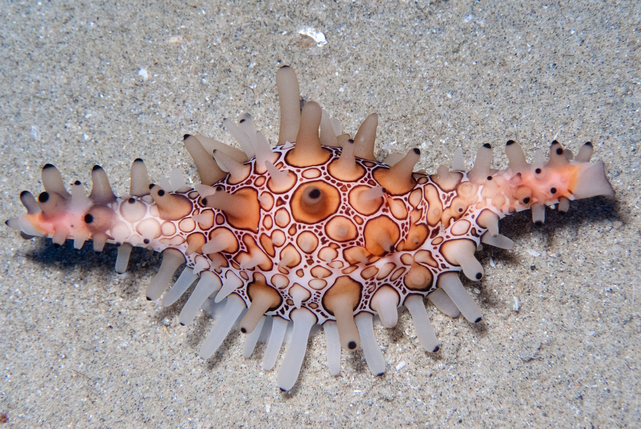 Volva volva, a sea snail, near Ponta do Ouro, Mozambique